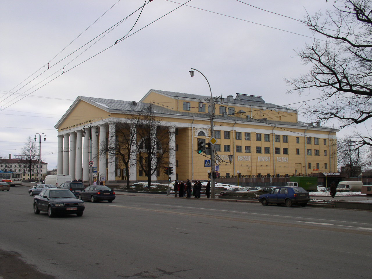 National State Academic Drama Theatre named after Yakub Kolas. Vitsebsk, Belarus.